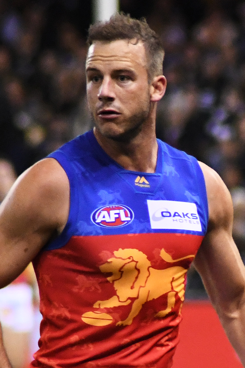 Josh Walker of Brisbane during the 2018 AFL round 21 match between Collingwood and Brisbane at Etihad Stadium on Saturday, 11 August 2018 in Melbourne, Victoria.